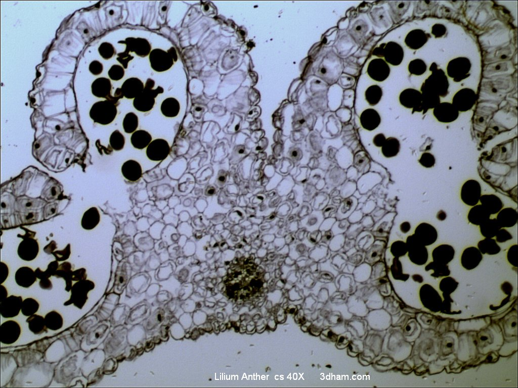 Lillium anther Cross Section Magnified 40 times